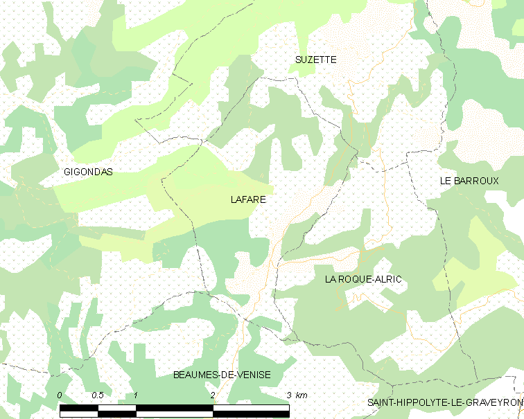 Map of French municipality Lafare